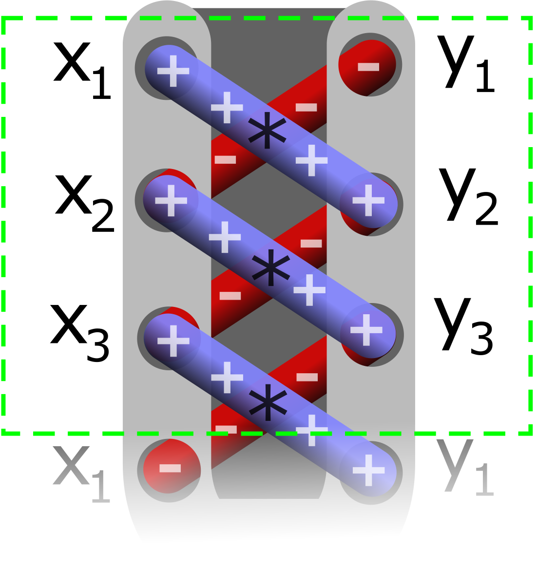 Schematic drawing of the algorithm